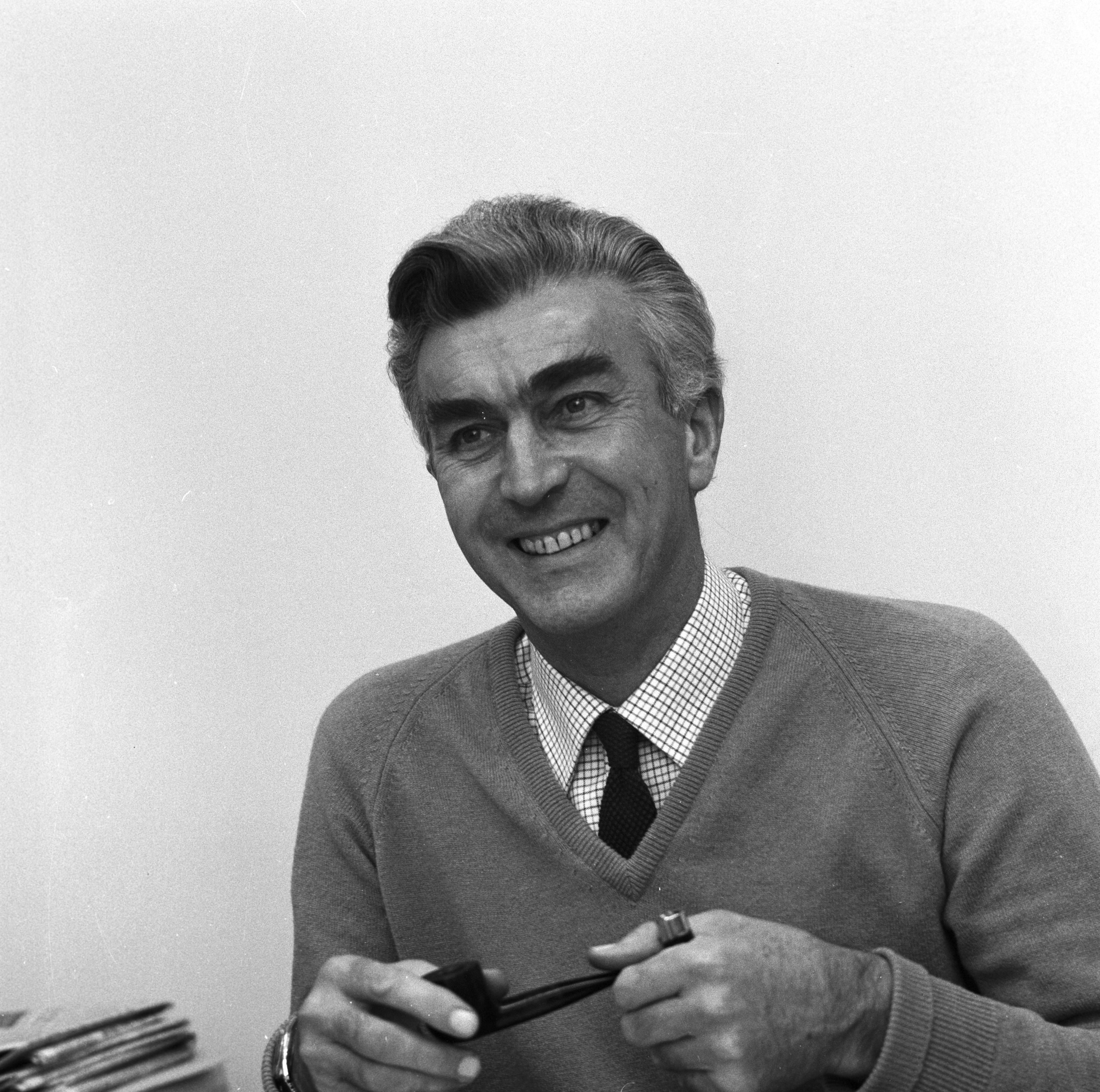 Portrait of John Adams, Director-General of Laboratory II. Adams led the design of the Super Proton Synchrotron. He split the duties of CERN Director General with Willibald Jentschke and then Léon van Hove during the 1970s. With the reorganization of CERN in 1976, he became the executive Director-General, working on obtaining funding for the LEP collider.